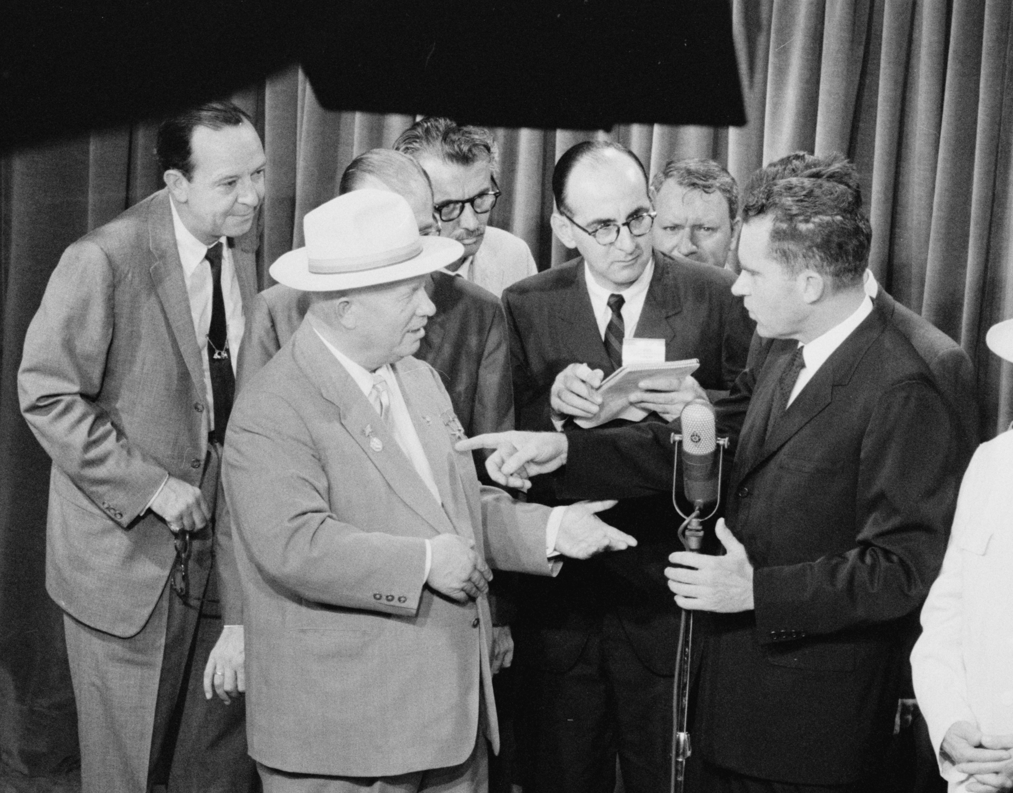 Cropped image of Richard Nixon and Nikita Khrushchev debating at the American National Exhibition in Moscow, 1959, part of what came to be known as the Kitchen Debate.